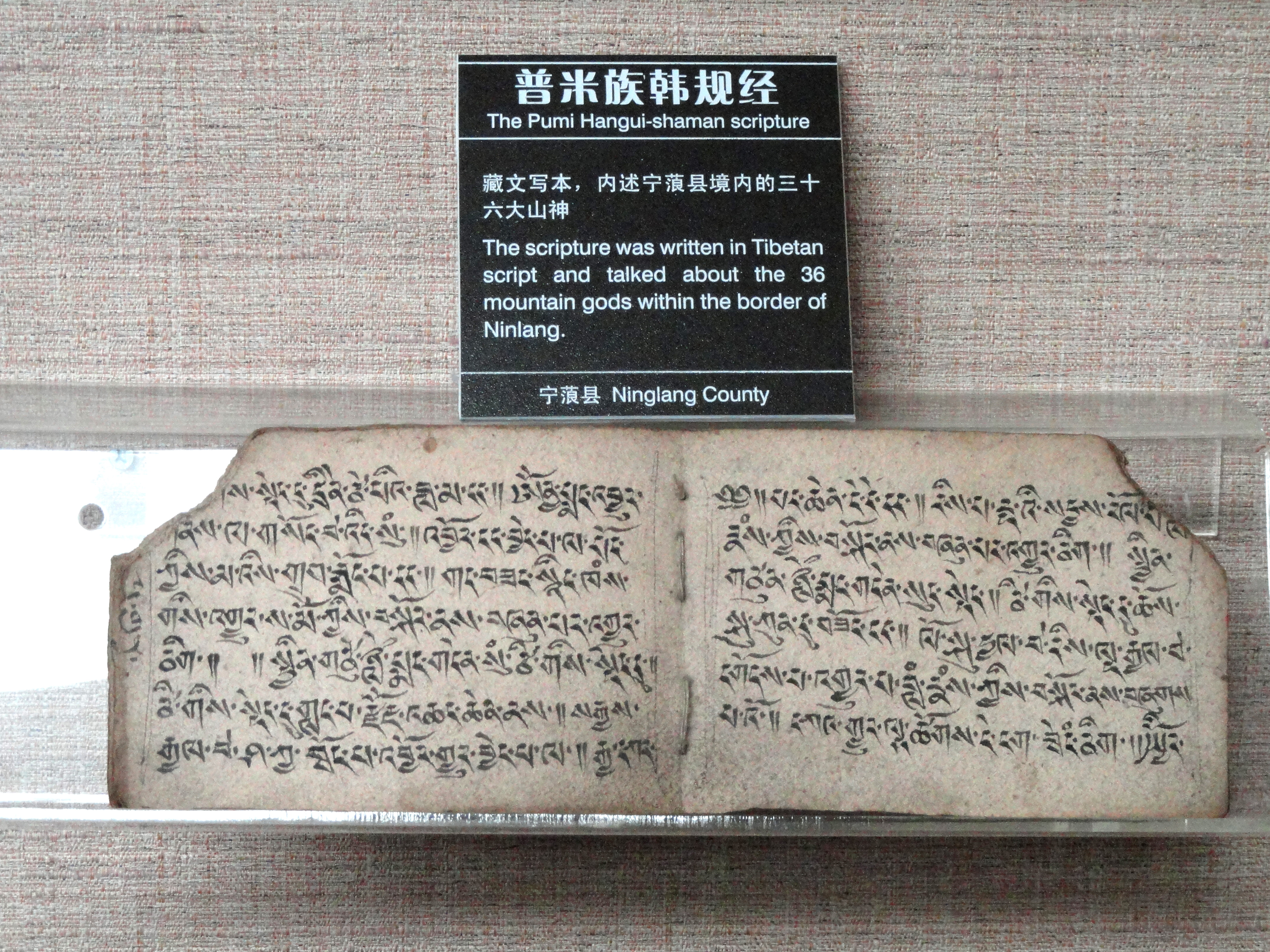 Pumi document for hangui-shamans, written in the Tibetan script. Manuscripts / writing systems in the Yunnan Nationalities Museum, Kunming, Yunnan, China.